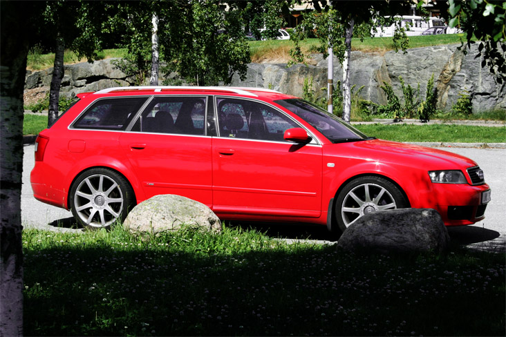 Audi B6 A4 with Ultra Sport Package